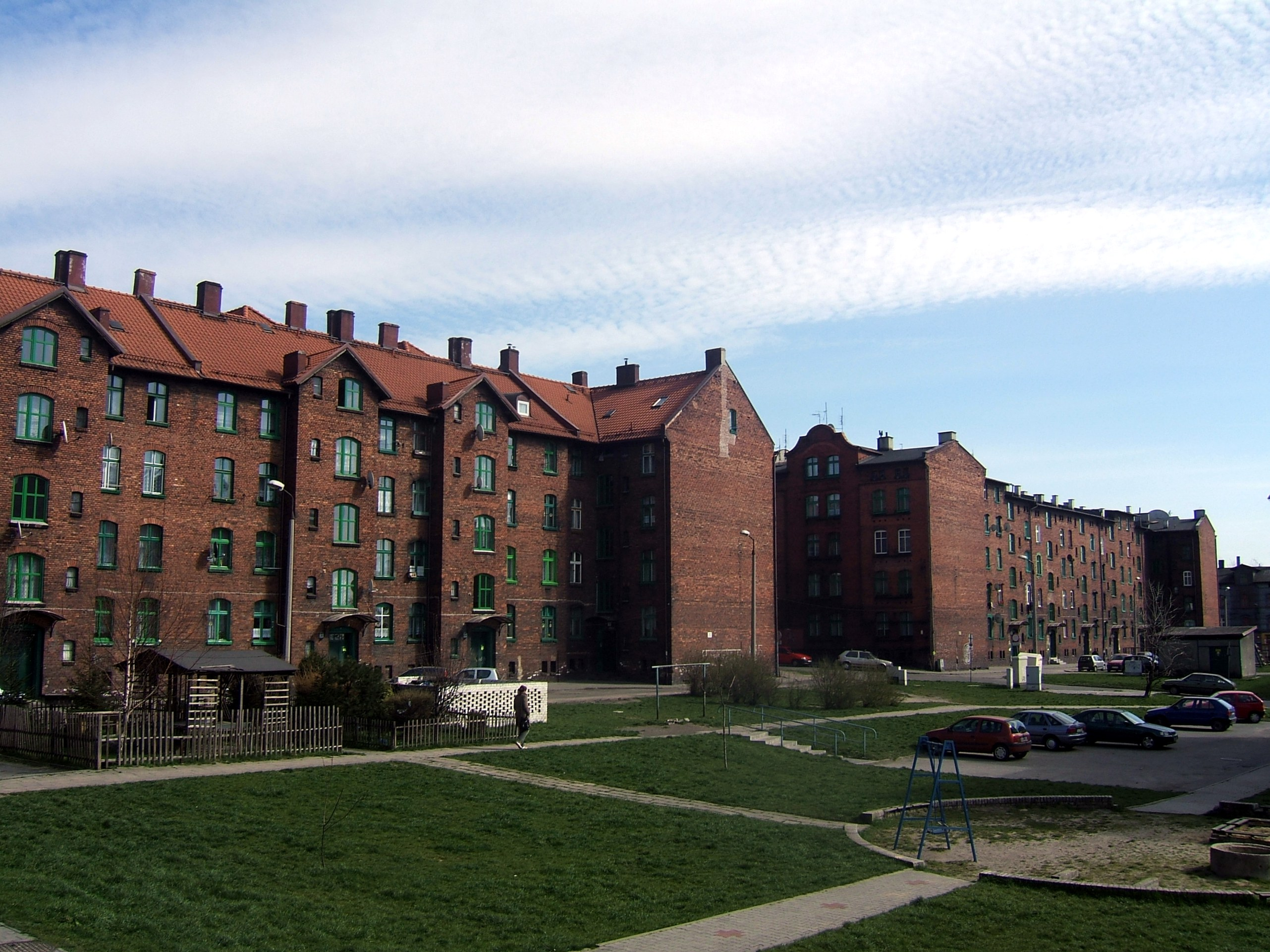 Backside of ul. Wojska Polskiego in Nowy Bytom, a district of Ruda Śląska.